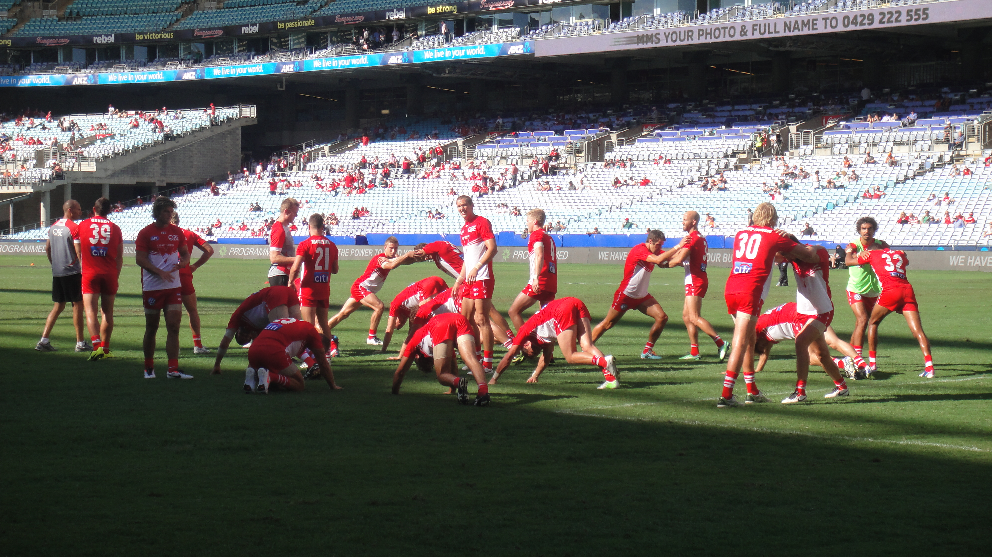 The Sydney Swans warm up before their first round match against the GWS Giants on 30/3/2013.